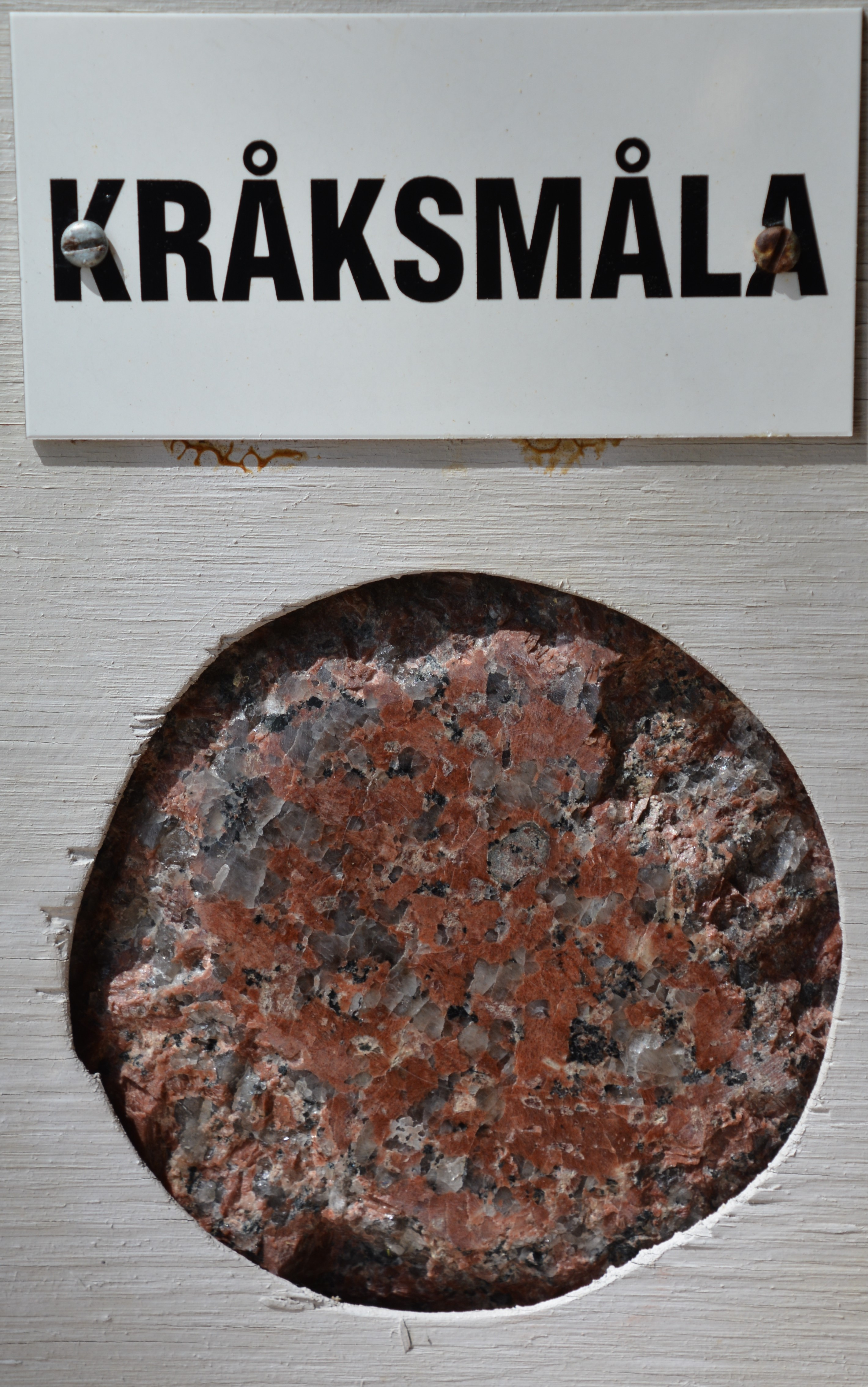 Götemargranit, bild på Våneviks stenhuggarmuseum, Vånevik